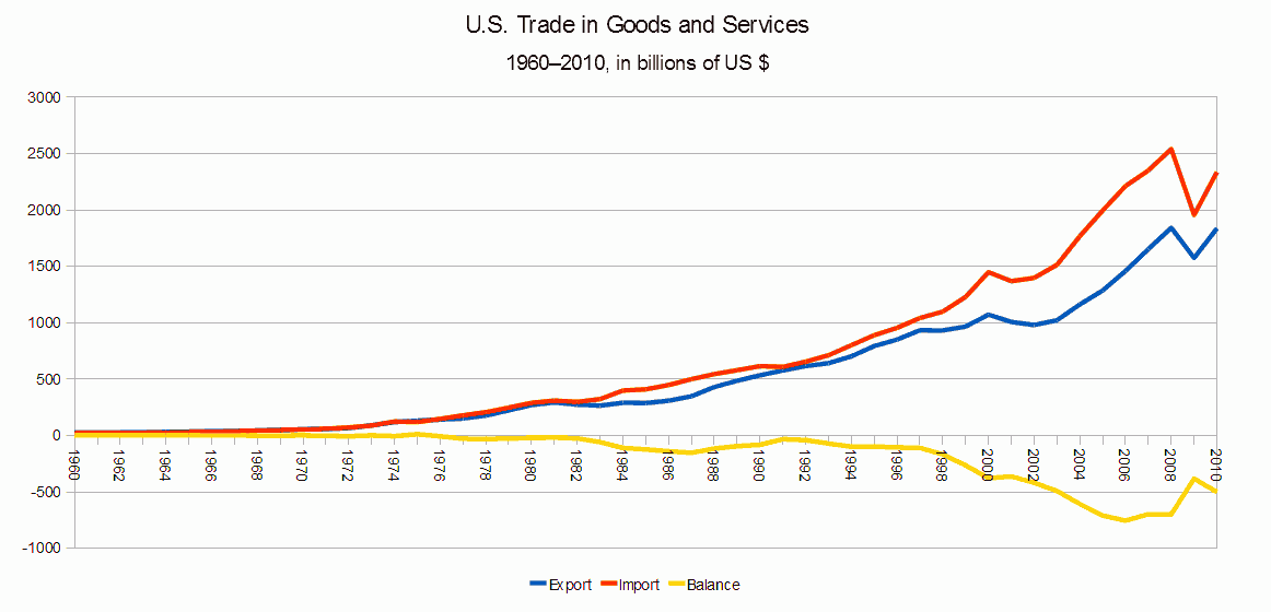 U.S. Trade in Goods and Services 1960-2010